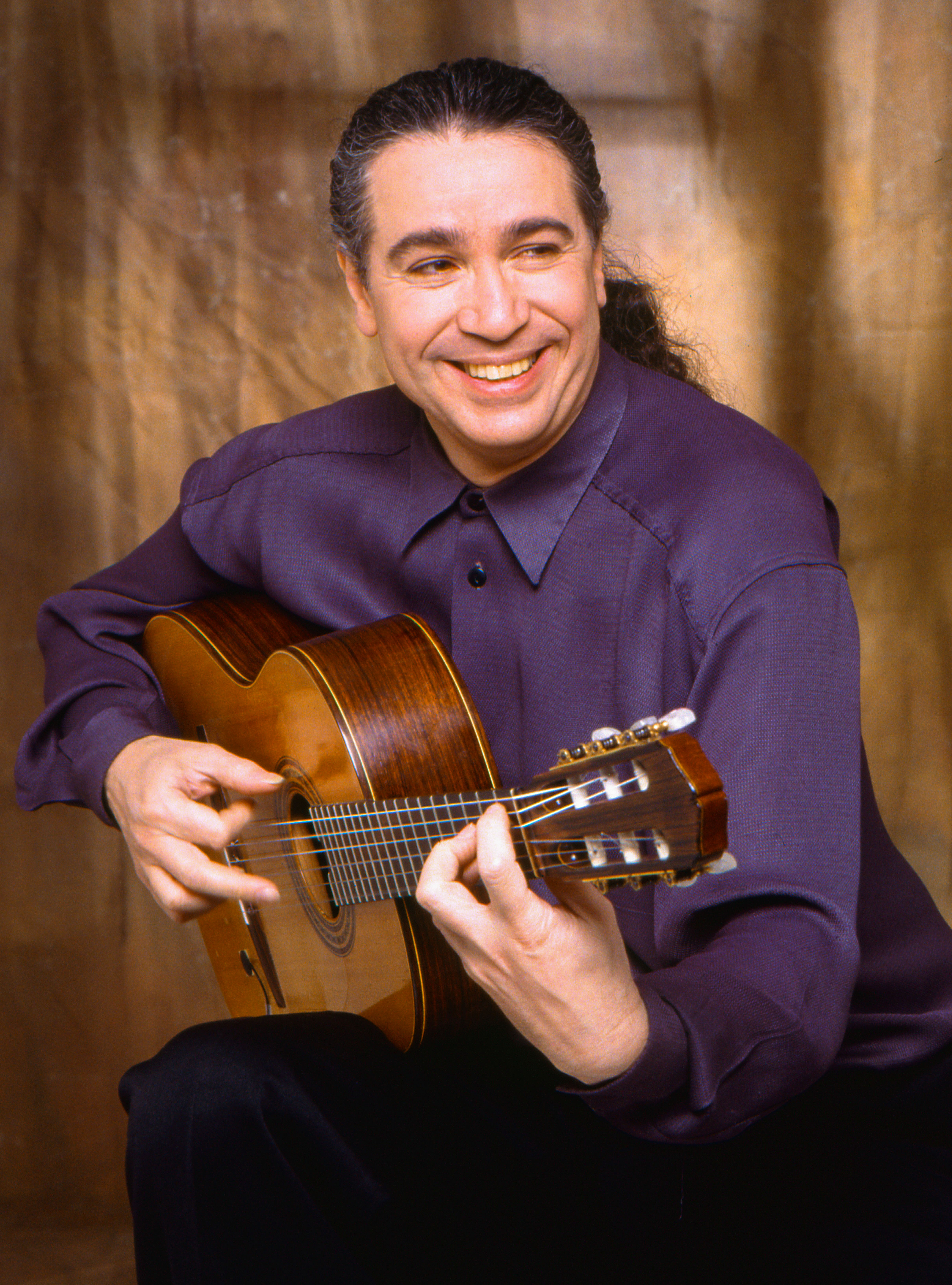 If you use this photo, you must use the correct attribution, which is at least: Photo of Michael Laucke taken by renowned photographer Sam Tata